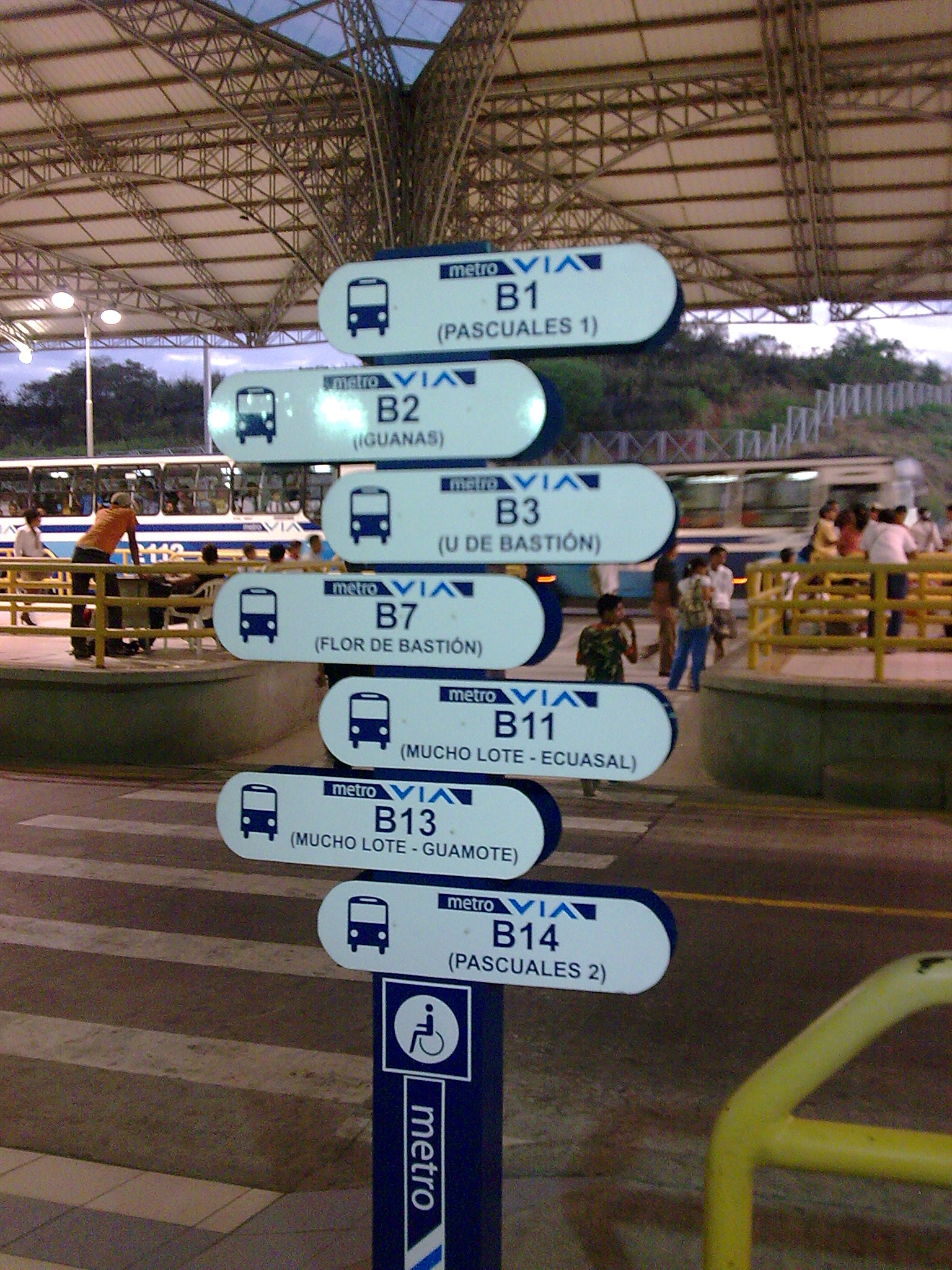 SageoEG - Metrovía - 001.jpg